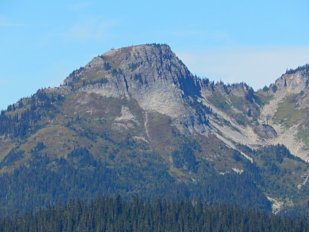 Iron Mountain seen from Inspiration Point on Stevens Canyon Road in Mount Rainier National Park.